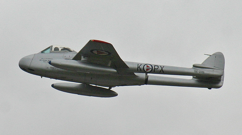 Pair of Norwegian Historic flight Vampires. T55 'PX-M' (LN-DHZ) actually ex Swiss AF 'U-1230' msn 990. and FB6 'PX-K' (SE-DXS) actually ex Swiss AF 'J-1196' msn 705. Departing RIAT Fairford. 18-7-2011